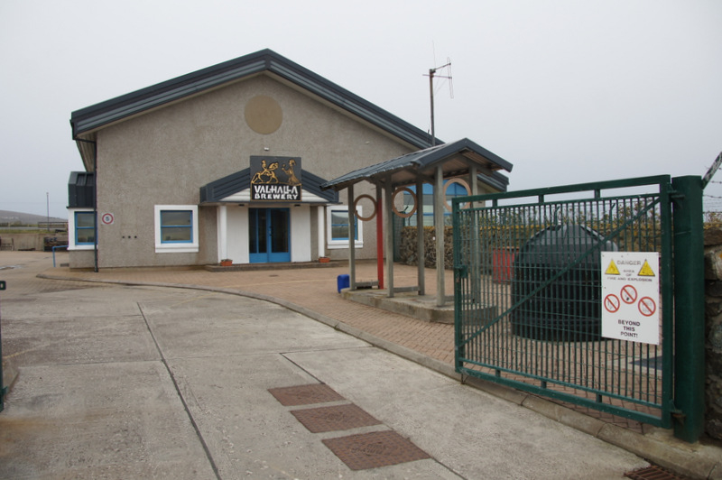 The new Valhalla Brewery, Haroldswick. In the former MT (Motor Transport) section of the former RAF Saxa Vord.